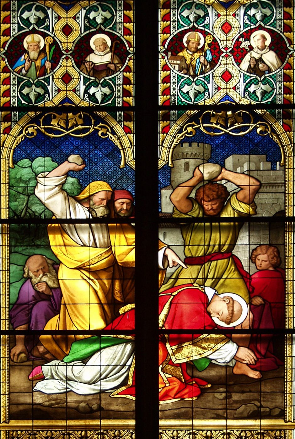 Cologne Cathedral - "Bayernfenster" - Stoning of Saint Stephen